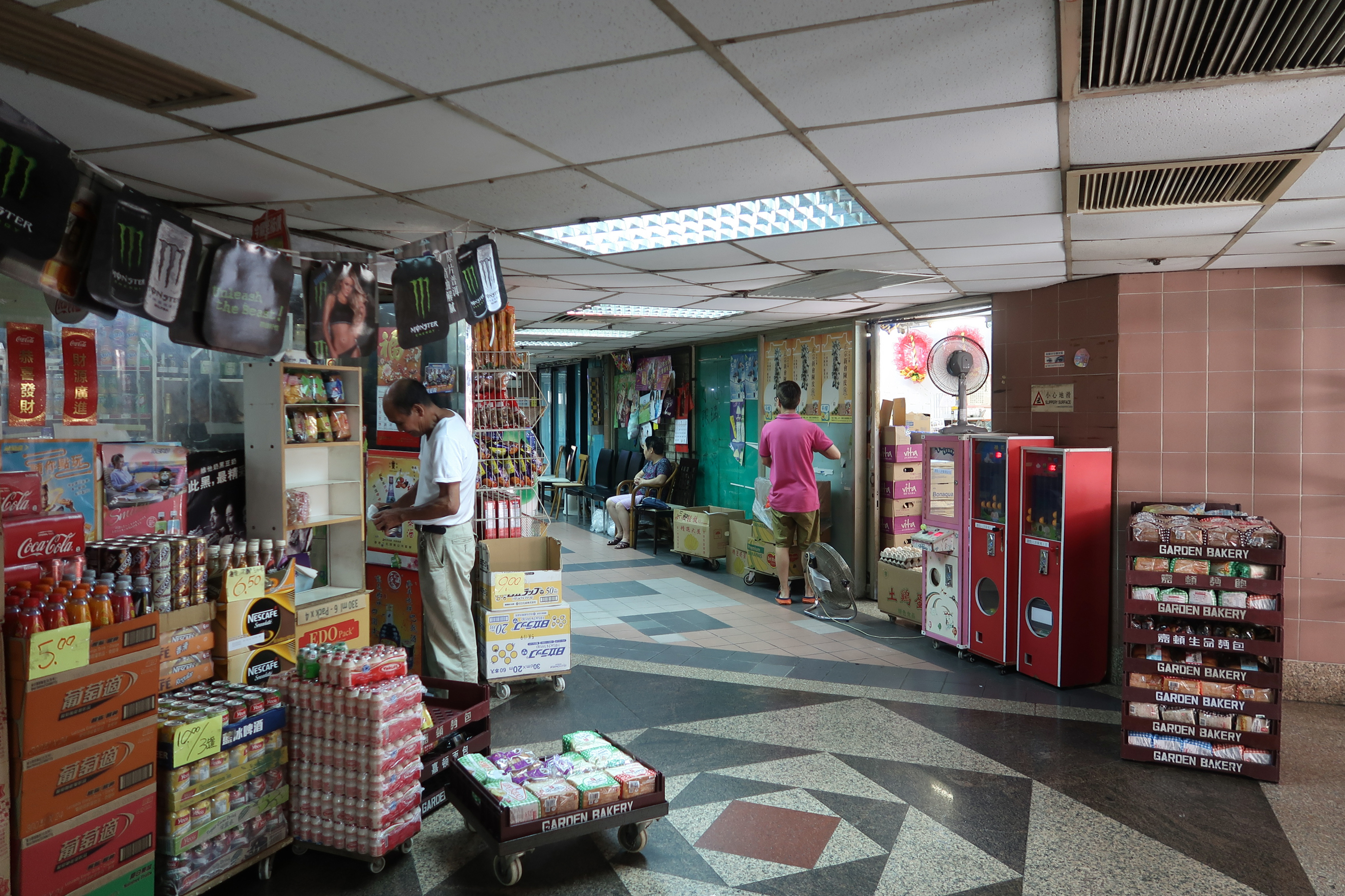 Tsuen Wan Centre Phase 1 Level 1